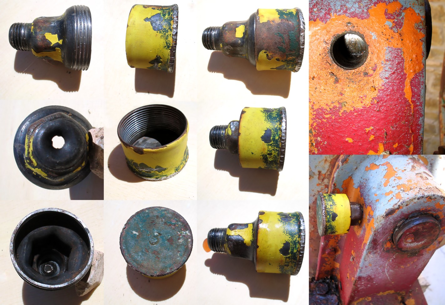 Greaser stauffer, you can see the individual components from different angles, the operating limits (fully opened and closed) and the seat / car (portable cement mixer) to which it is applied.